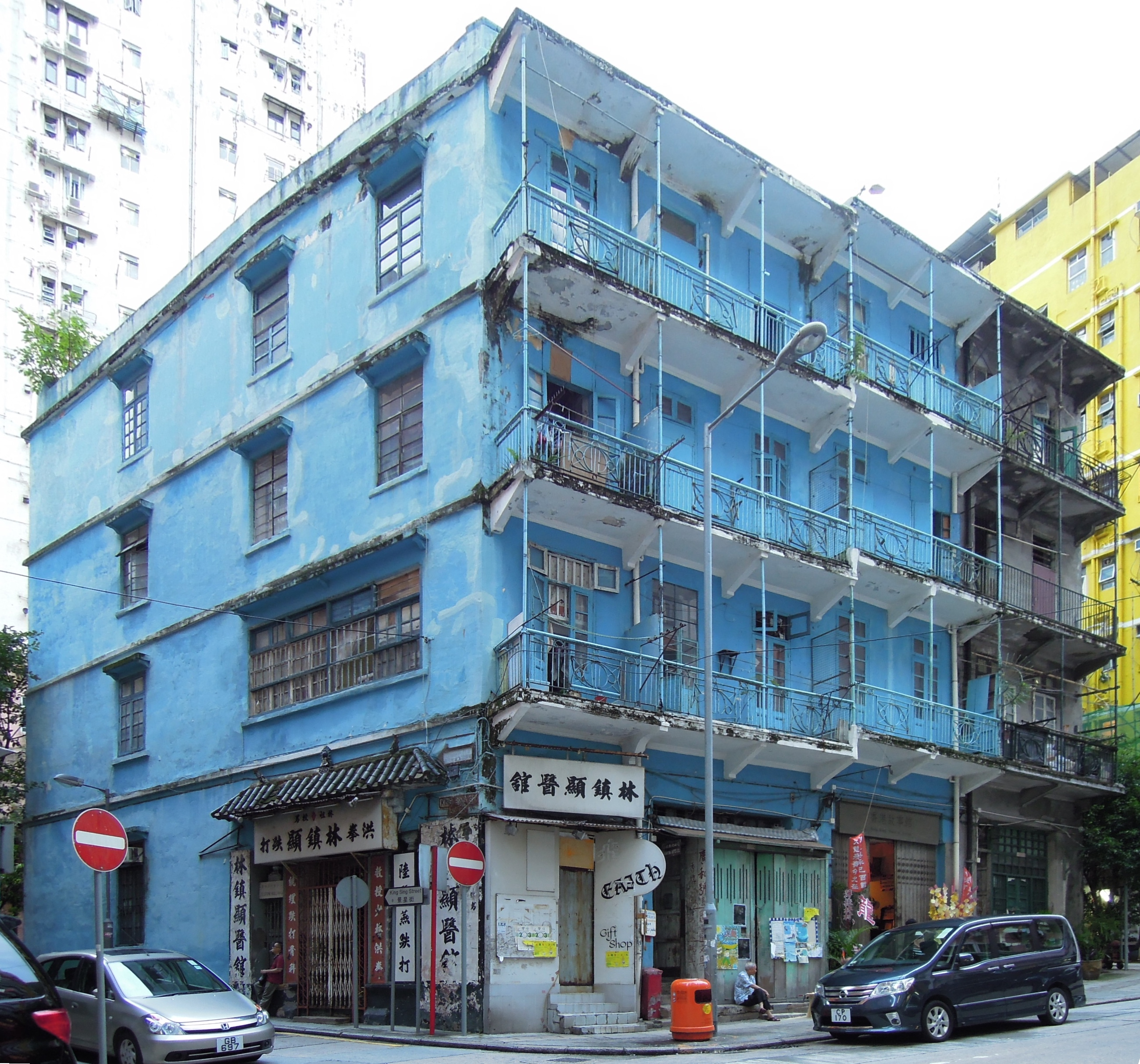 It was built on 1920s, used to be a hospital and a temple respectively. Now is revitalized as the Hong Kong House of Stories.